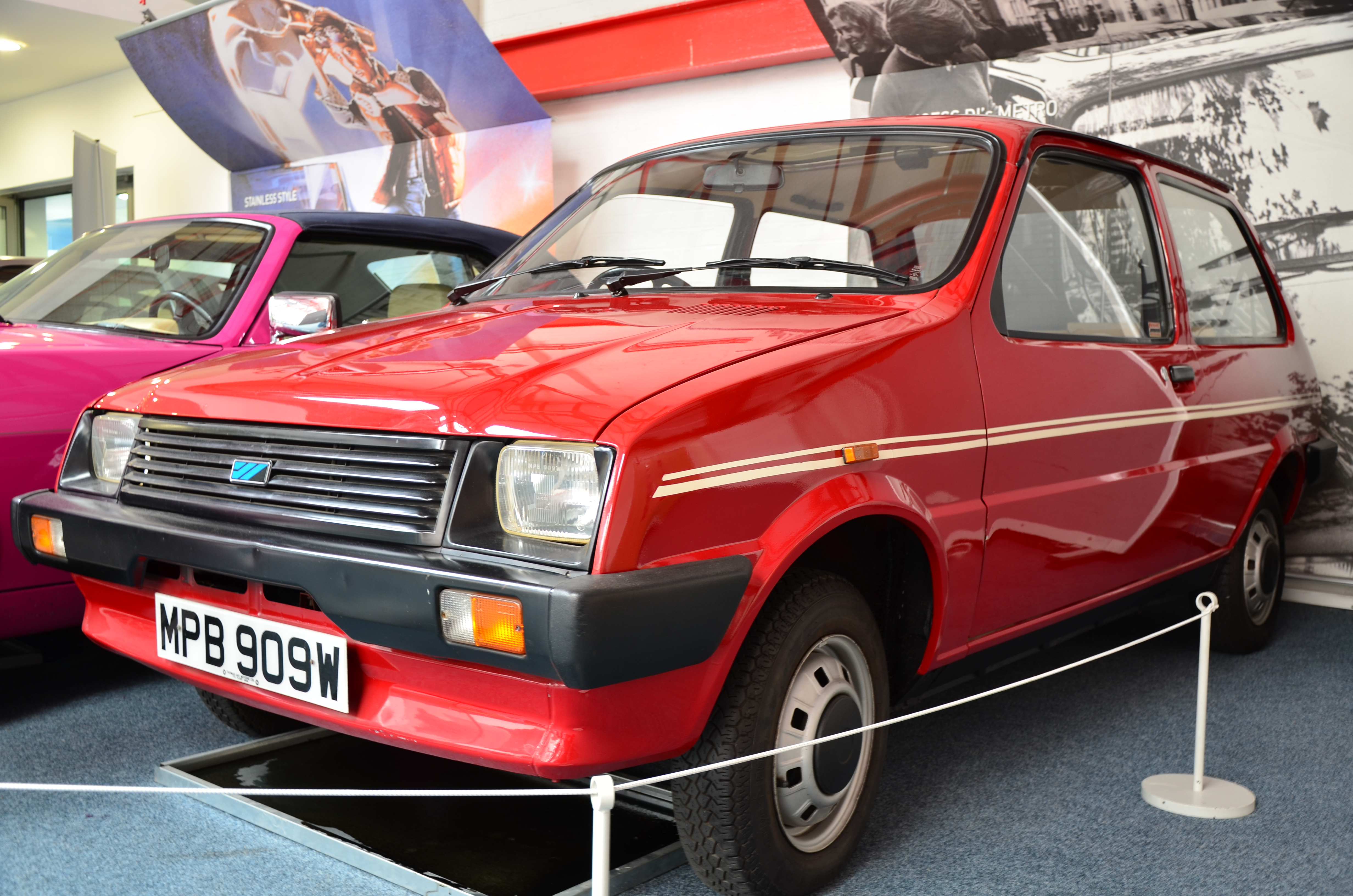 Princess Diana's car - a 1980 Austin Metro